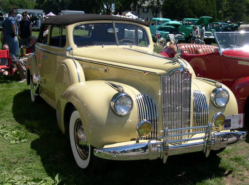 1941 Packard (19th series) Super Eight One-Sixty Convertible Sedan (Model 1903, body style #1477) Source: Photographed at the Bay State Antique Automobile Club's July 10, 2005 show at the Endicott Estate in Dedham, MA by User:Sfoskett